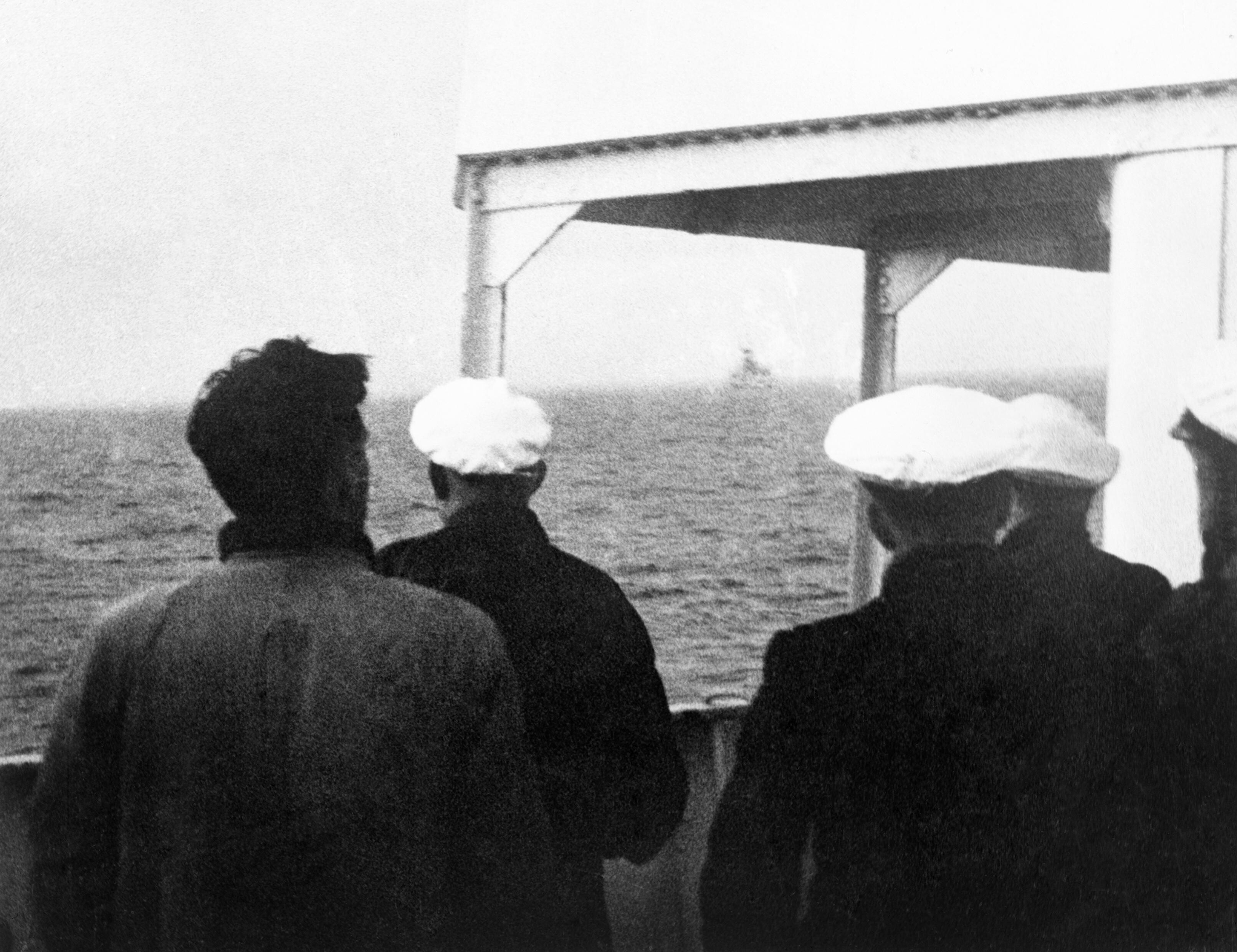 Sinking of SS Athenia, 1939 Watching the sinking of SS Athenia